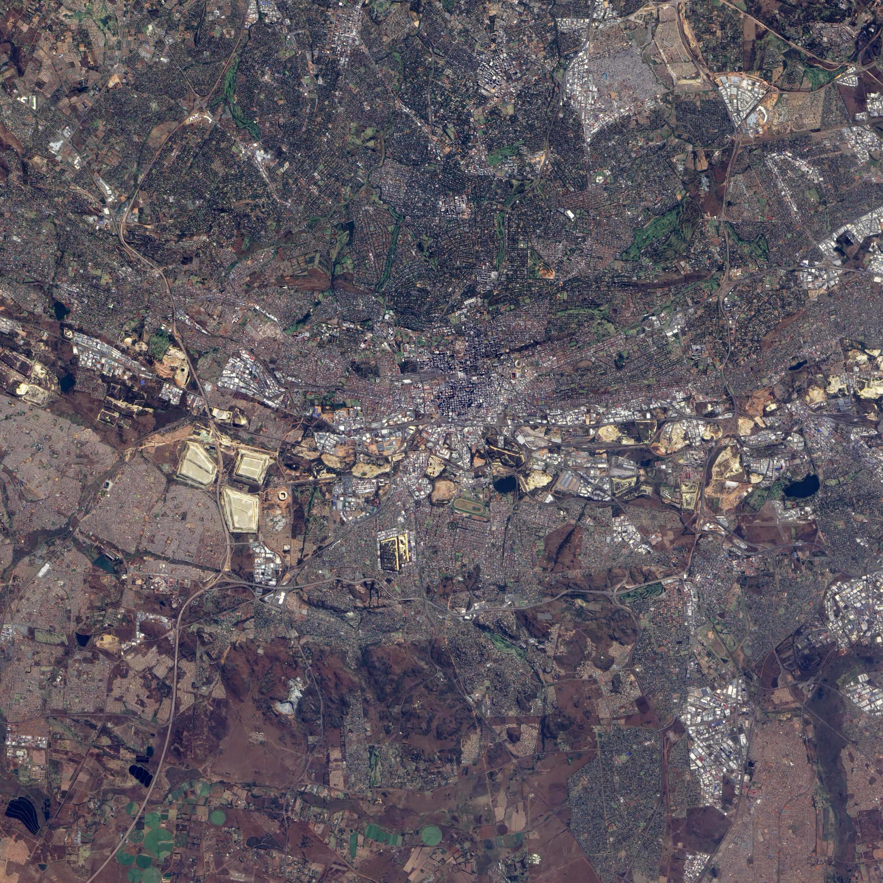 Satellite image of Soccer City stadium. Shaped roughly like a rectangle with rounded corners, the stadium sports high walls that cast long shadows toward the south-west. Capable of seating 94,700 spectators, Soccer City is nevertheless dwarfed by nearby slag piles left over from decades-long mining operations. On the opposite side of the slag piles from Soccer City is Diepkloof, one of several settlements comprising Soweto. The roughly circular-shaped settlement shows a street grid typical of residential areas, with small, closely packed houses. East and north-east of Soccer Stadium are clusters of much larger buildings characteristic of an industrial park. Although vegetation appears in this image, it is relatively scarce, and much of the ground appears in shades of beige and brown, either sparsely vegetated land, or earth upturned to prepare for construction. One exception is the green golf course immediately east of Soccer City.